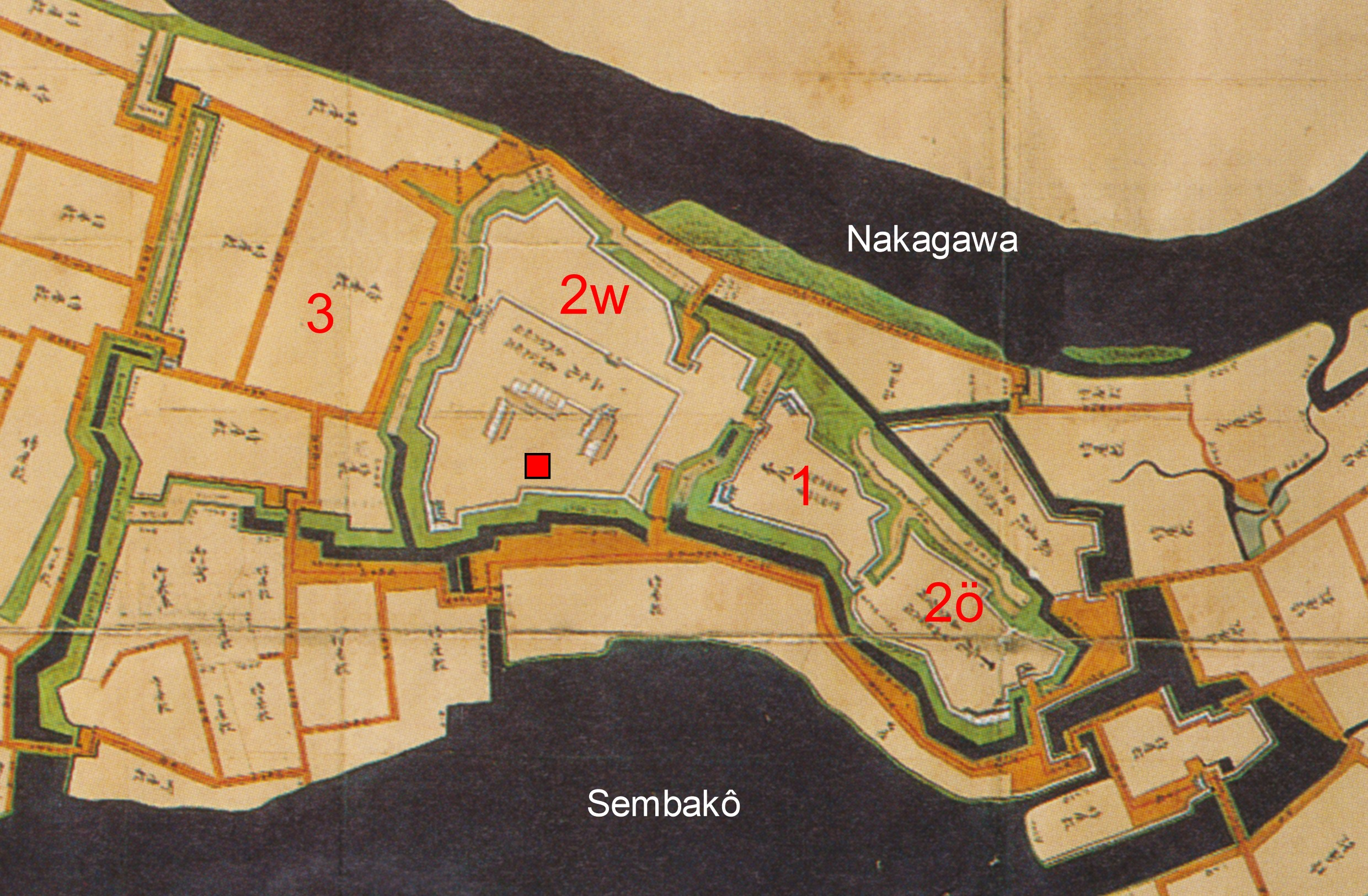 Outline of Mito castle in Edo-Period: 1 = Honmaru, 2 = Ni-no-maru (ö = eastern part, w = western part), 3 = San-no-maru, red square = Yagura watchtower